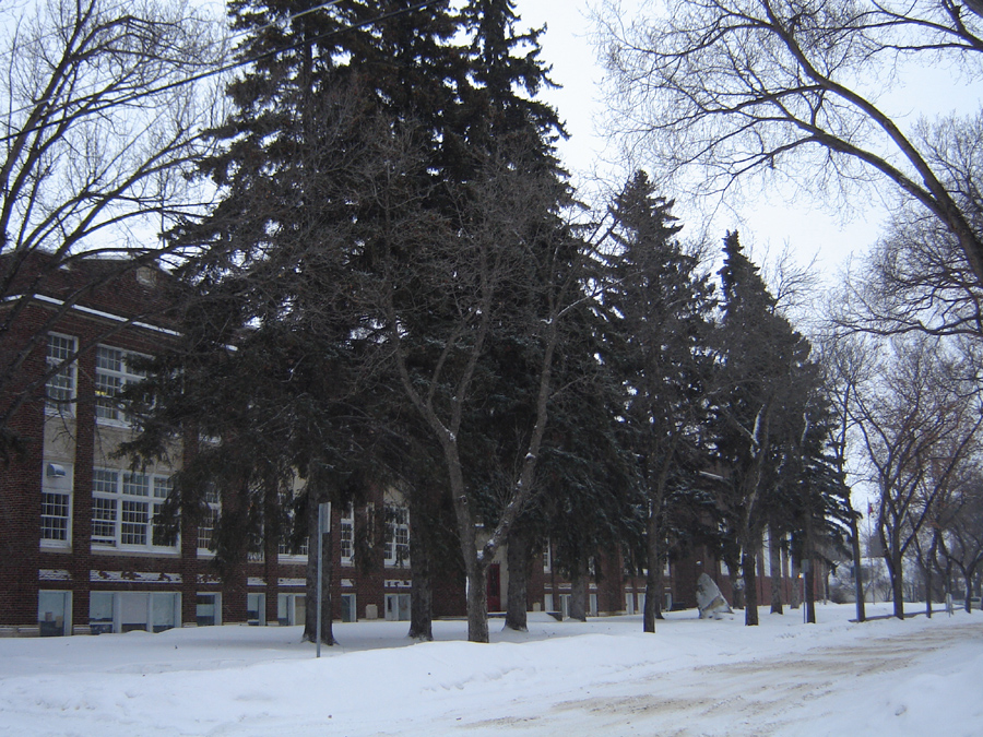 City Park Collegiate, City Park, Core Neighbourhoods SDA, Saskatoon, Saskatchewan, Canada